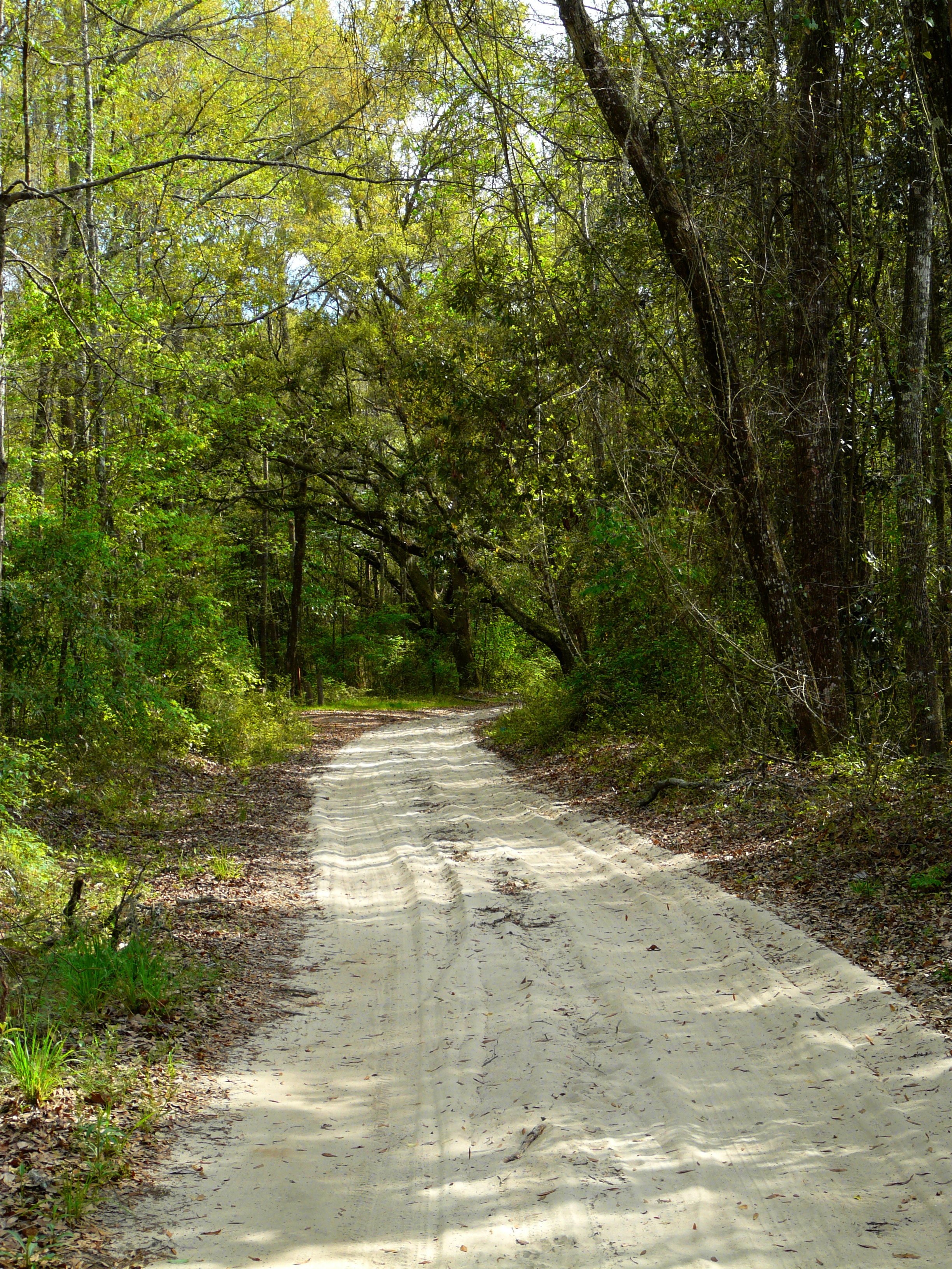 An unpaved road winds through the woods of North Florida.